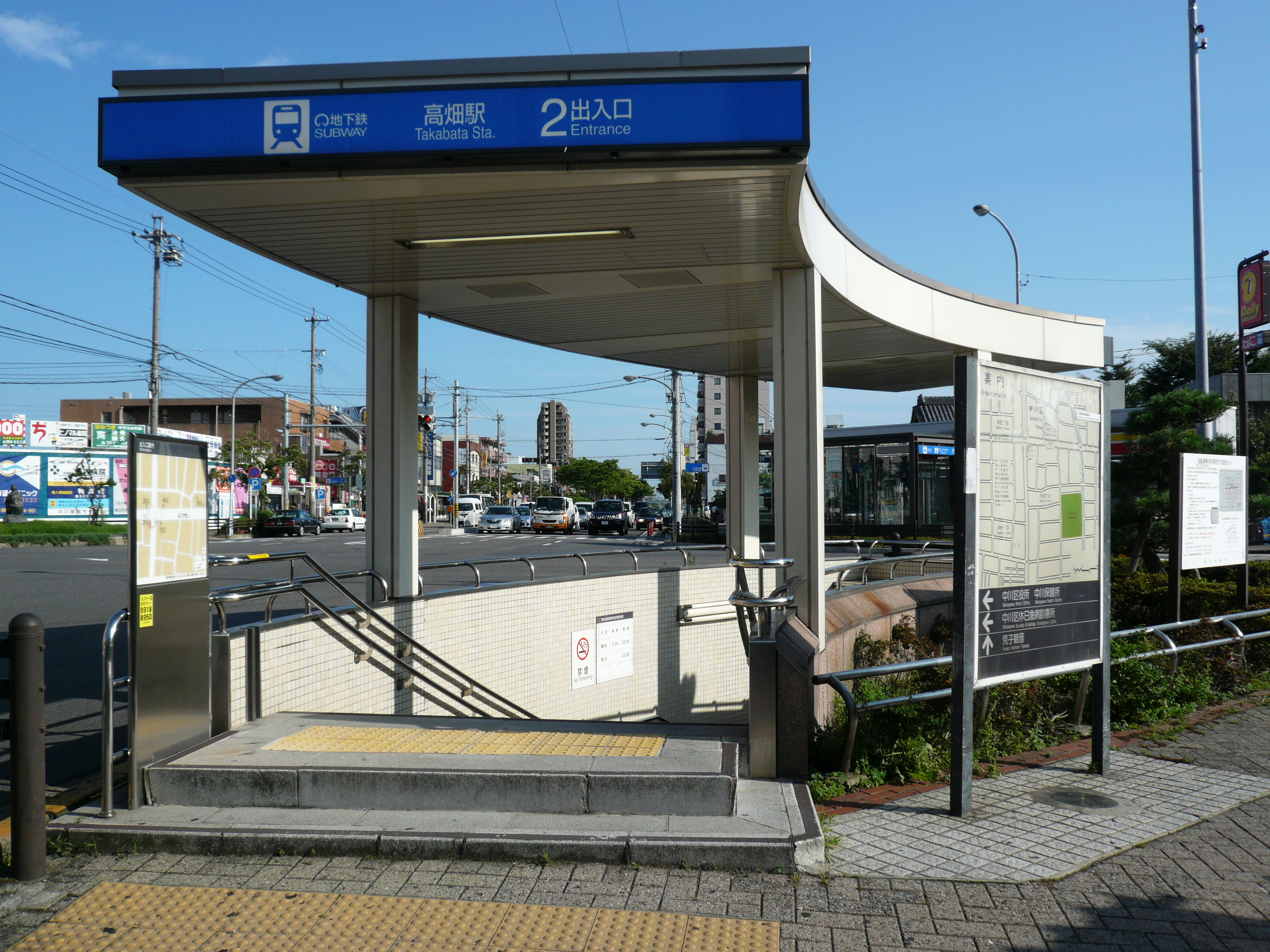 Entrance No. 2 of Takabata Station on the Nagoya Subway Higashiyama Line